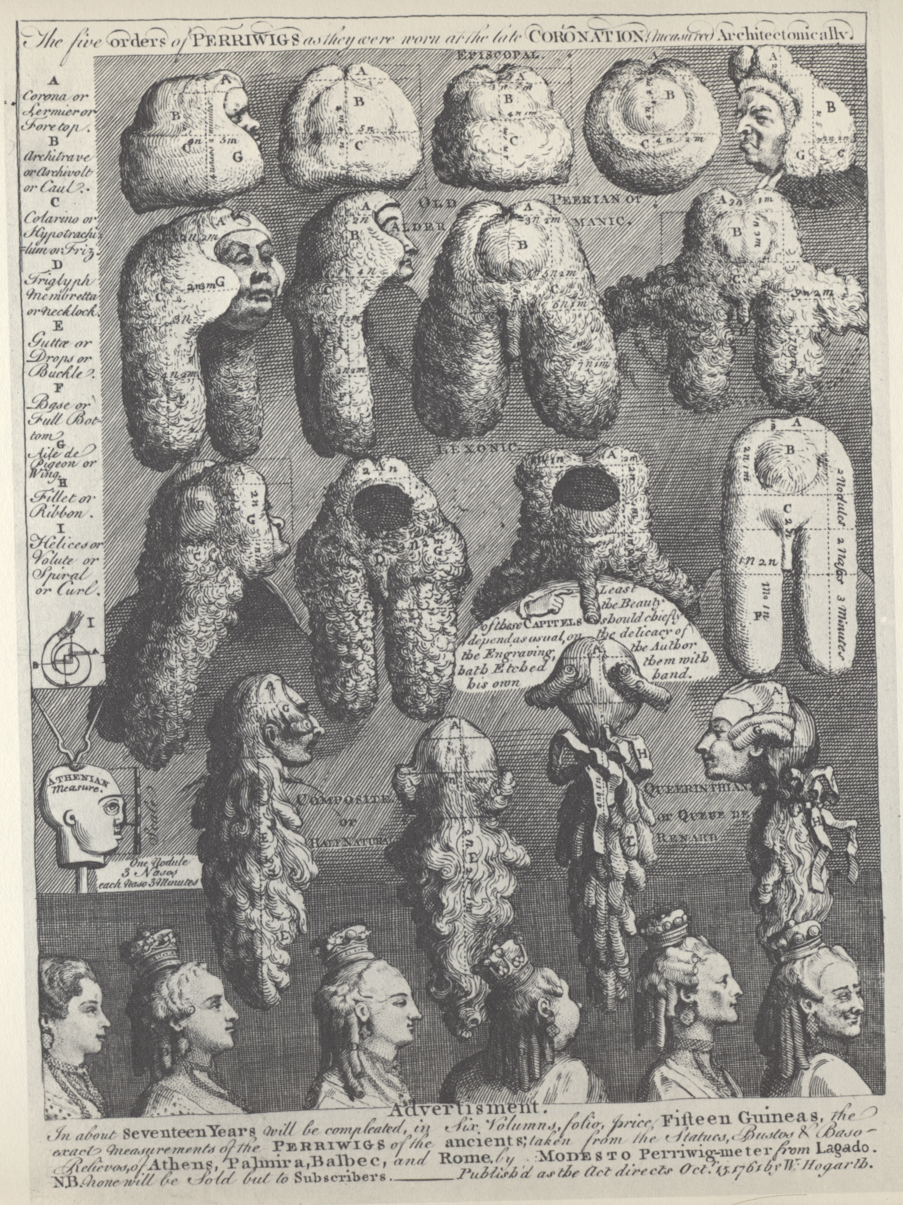 William Hogarth - The Five Orders of Perriwigs